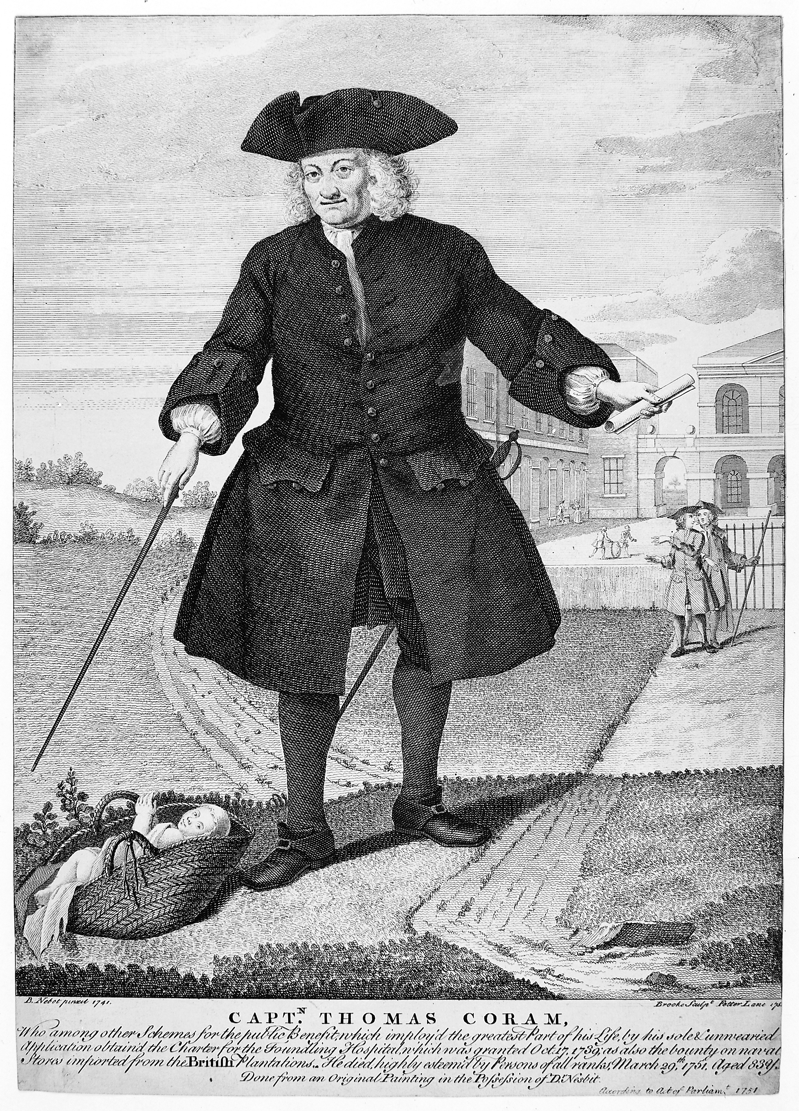 Thomas Coram, in the foreground an infant in a basket, in the background the Foundling Hospital. Line engraving by J. Brooke, 1751, after B. Nebot, 1741. Iconographic Collections Keywords: foundling hospital; Balthasar Nebot; B. Nebot; Foundling Hospital (London); Thomas Coram